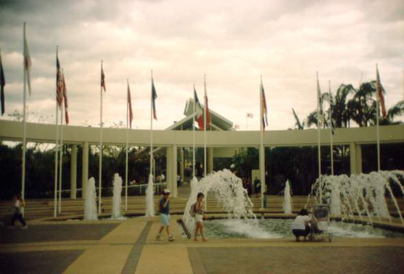 Fountains at the entrance to South Bank Parklands ( this photograph was taken by Figaro )